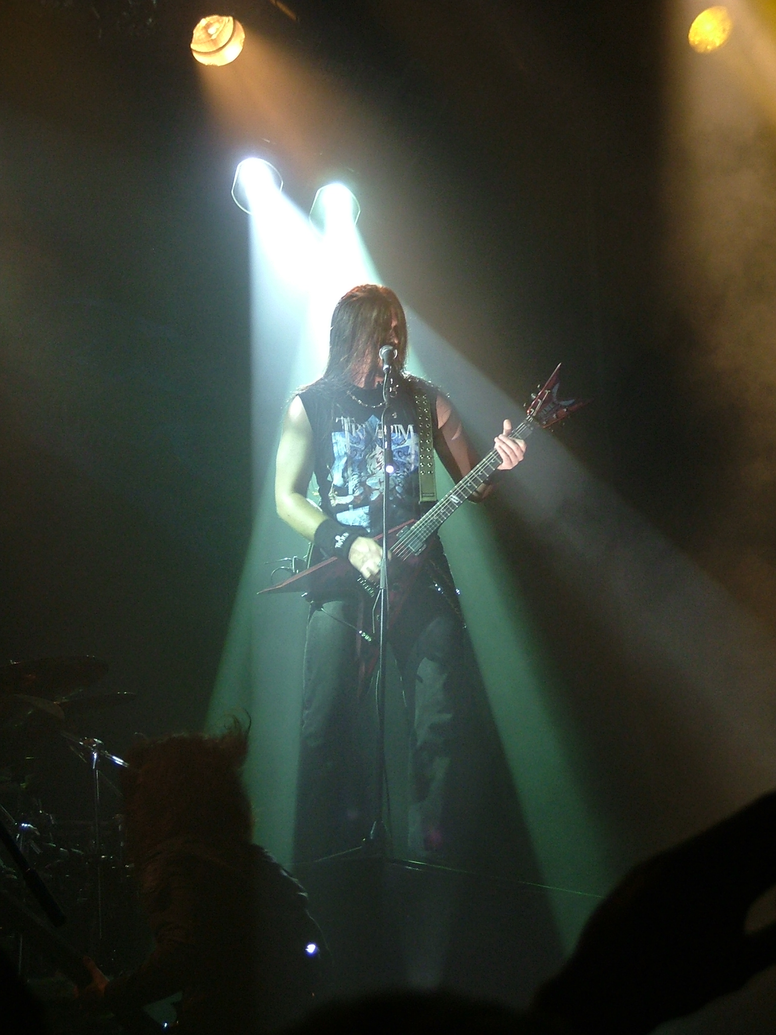 Corey Beaulieu of US-american thrash metal band Trivium at a concert in Linz